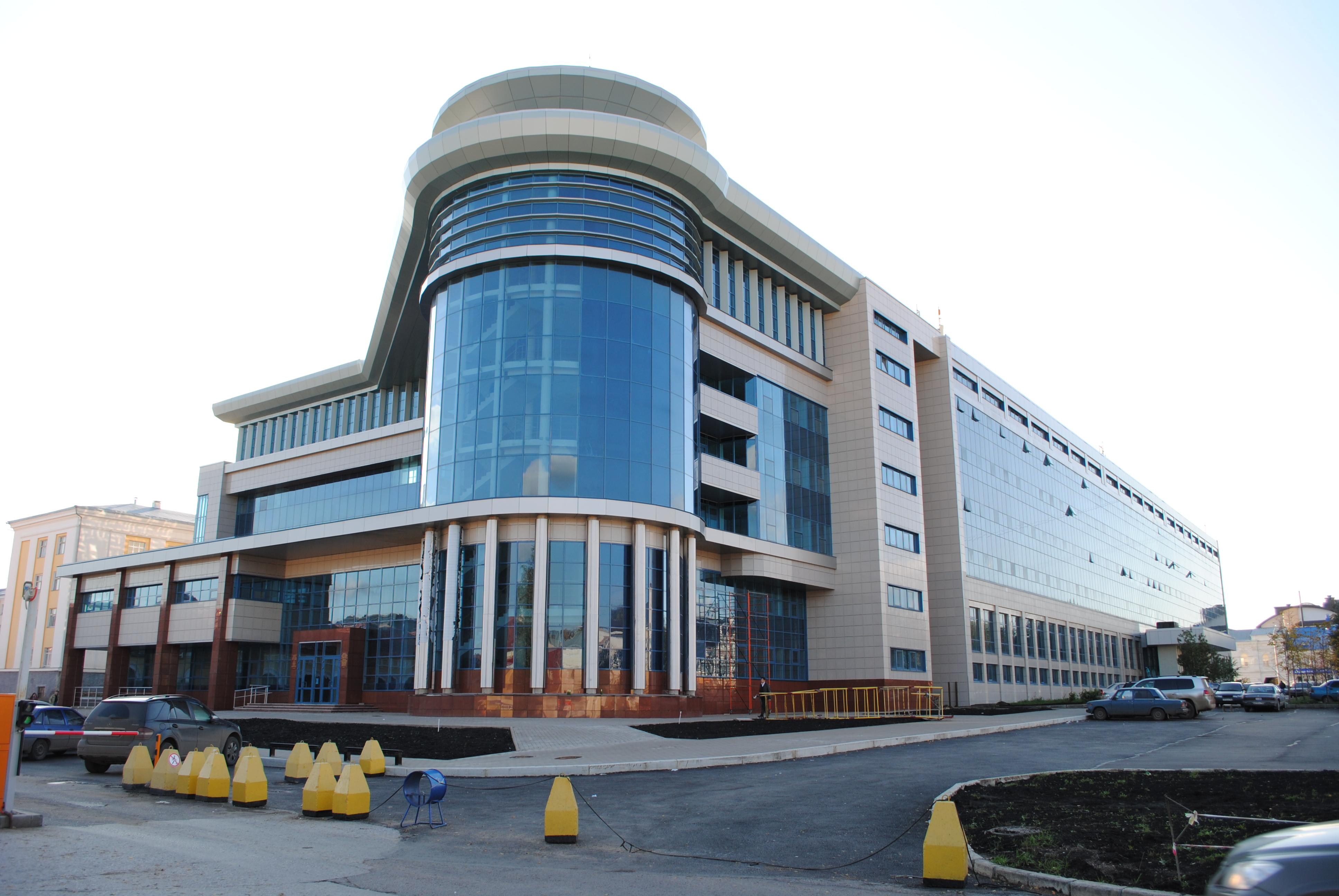 Ufa State Aviation Technical University building 9,8